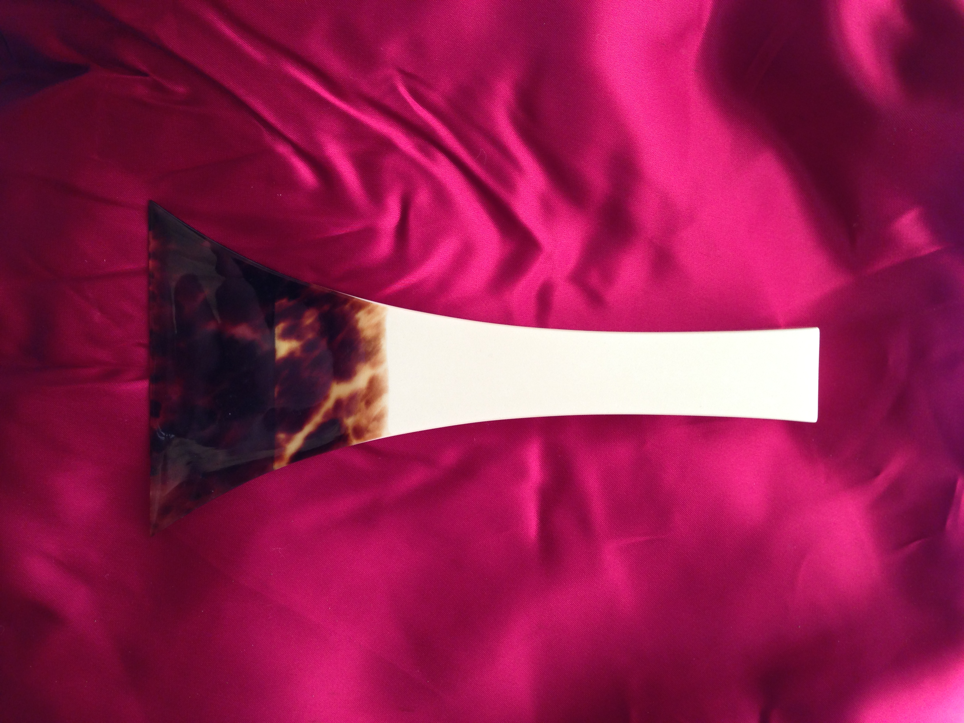 The plectrum of a shamisen in its case